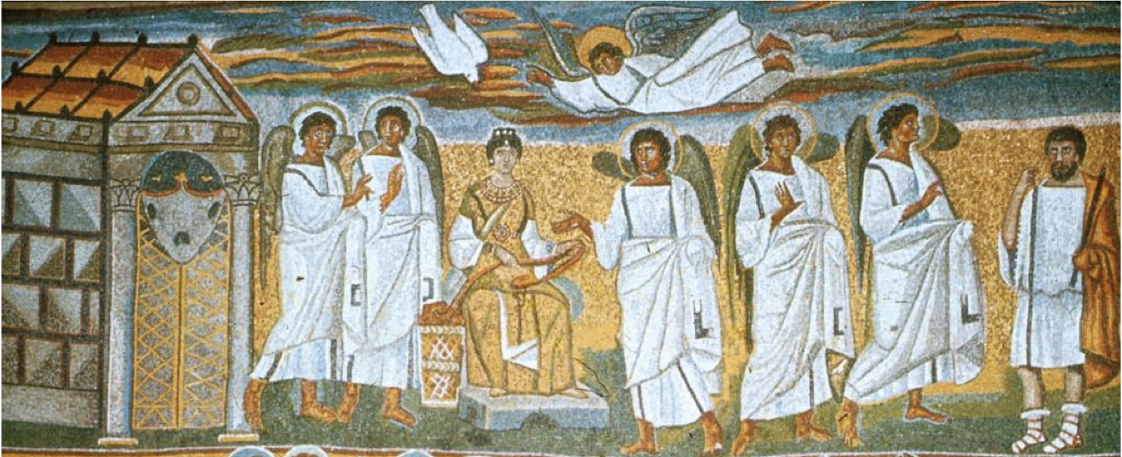 Annunciation on the triumphal arch of Santa Maria Maggiore in Rome (432-440)